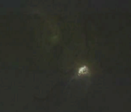 Cat island entirely eroded